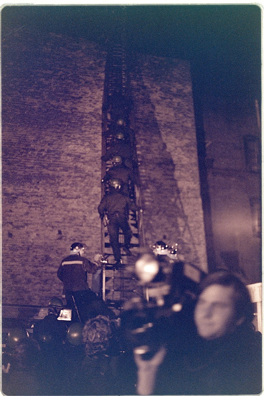 SF Law enforcement officers use LADDER to enter the International Hotel roof during eviction night August 4,1977. Photo by Nancy Wong